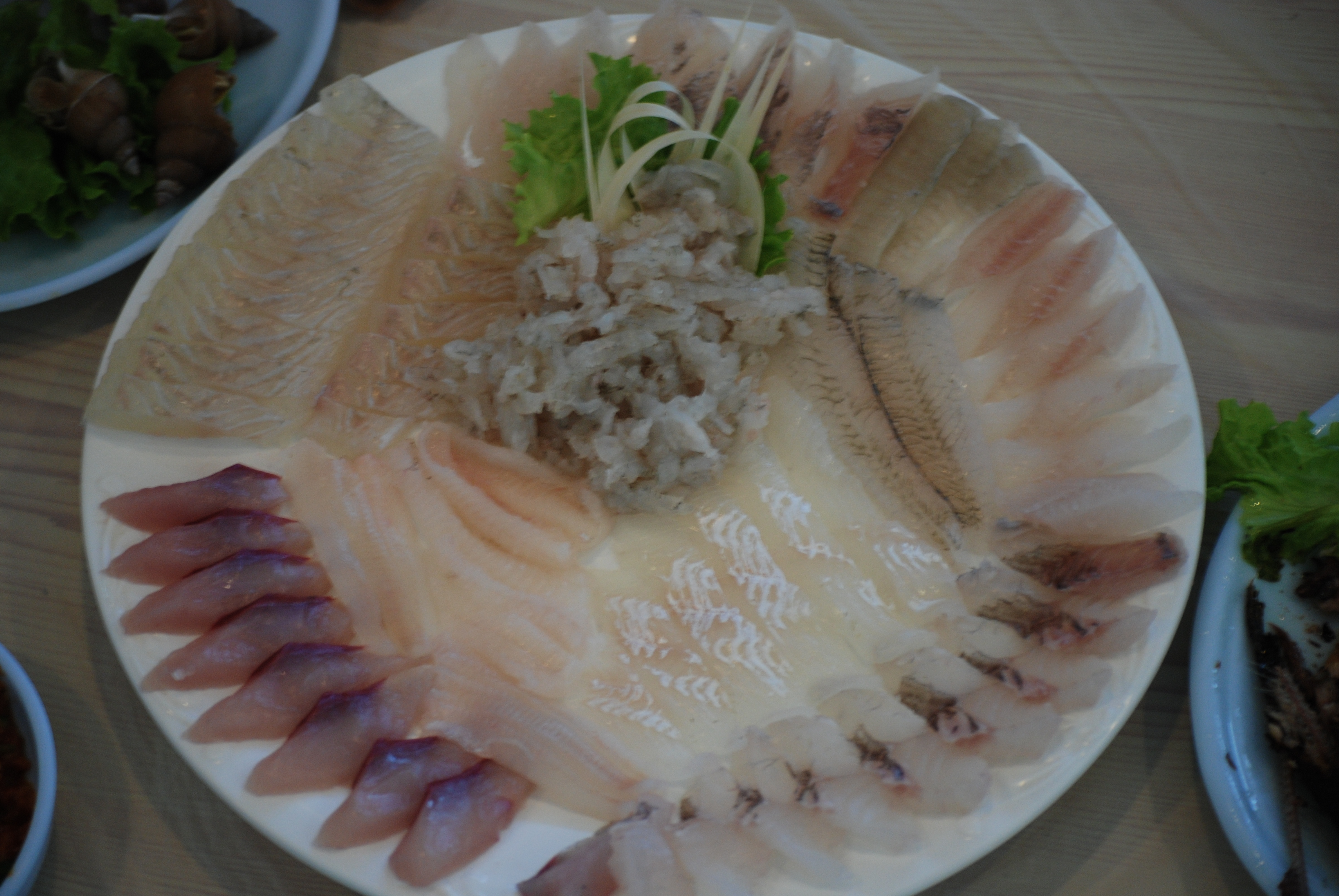 Saengseon hoe (생선회), slices of raw fish dish in Korean cuisine